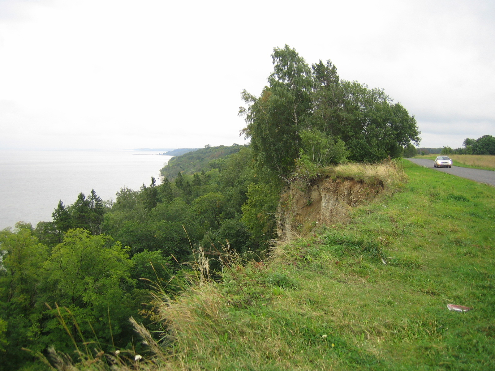 Martsa cliff